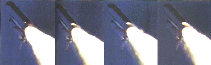 Space Shuttle Challenger after 58.788 sec